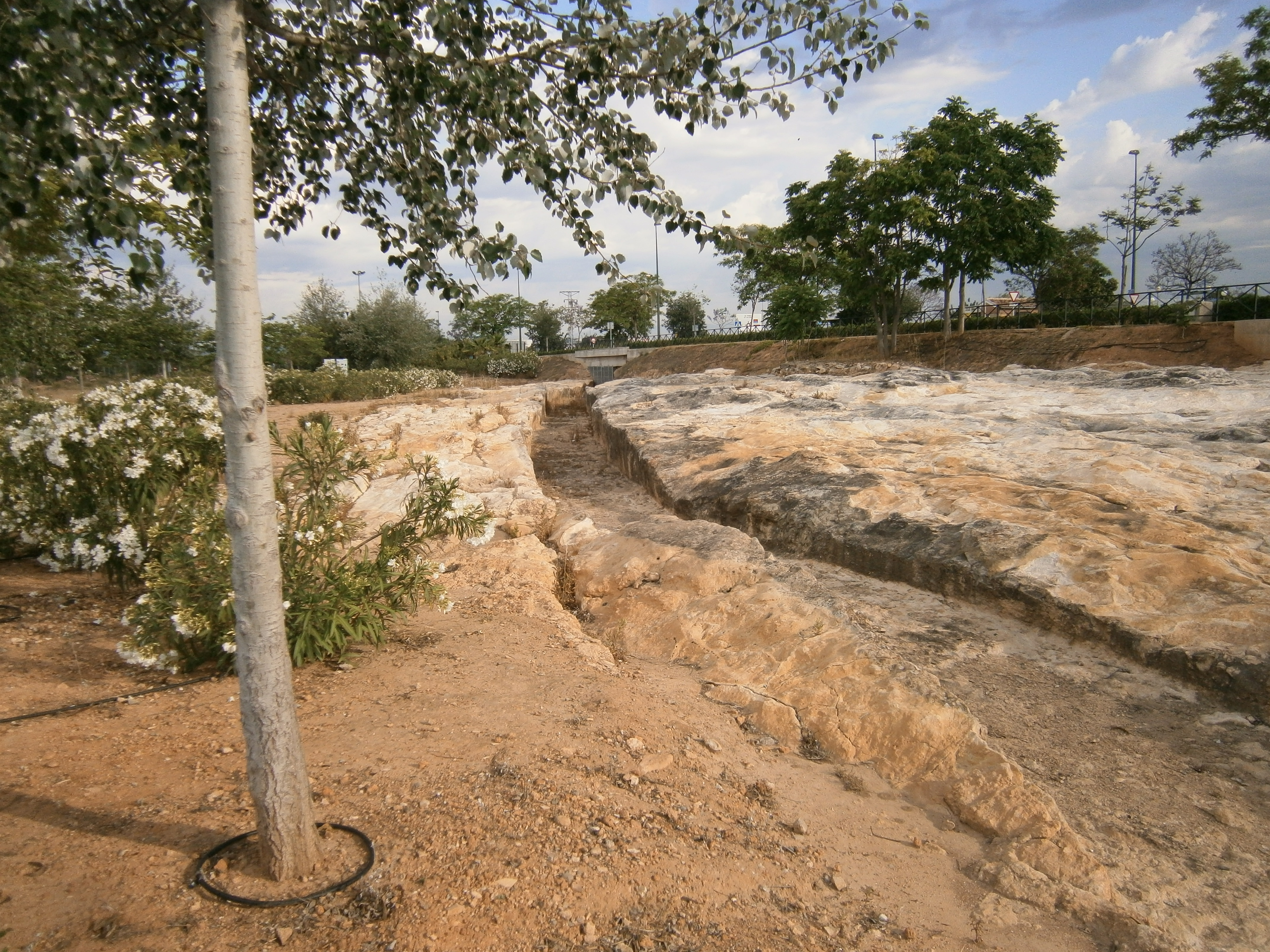 Vista del acueducto cerca del Centro Comercial El Osito